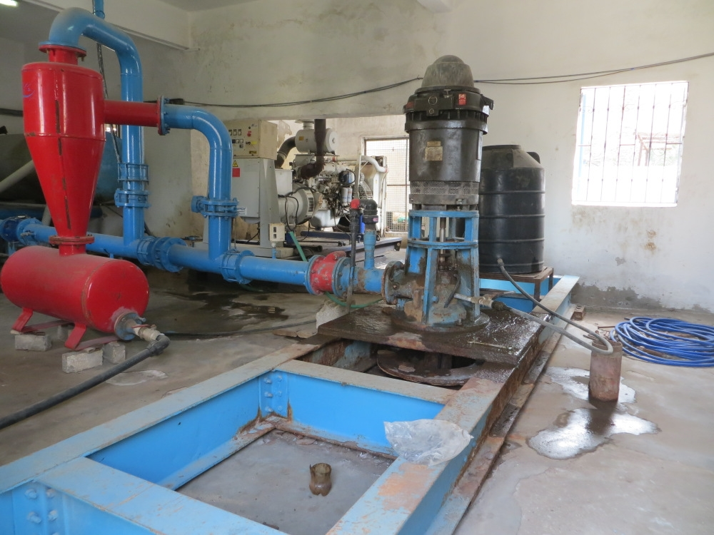 Description from B'Tselem source: "Severe problems with water supply in West Bank and Gaza, February 2014." Photo caption from source: "Water Authority wastewater treatment facility."